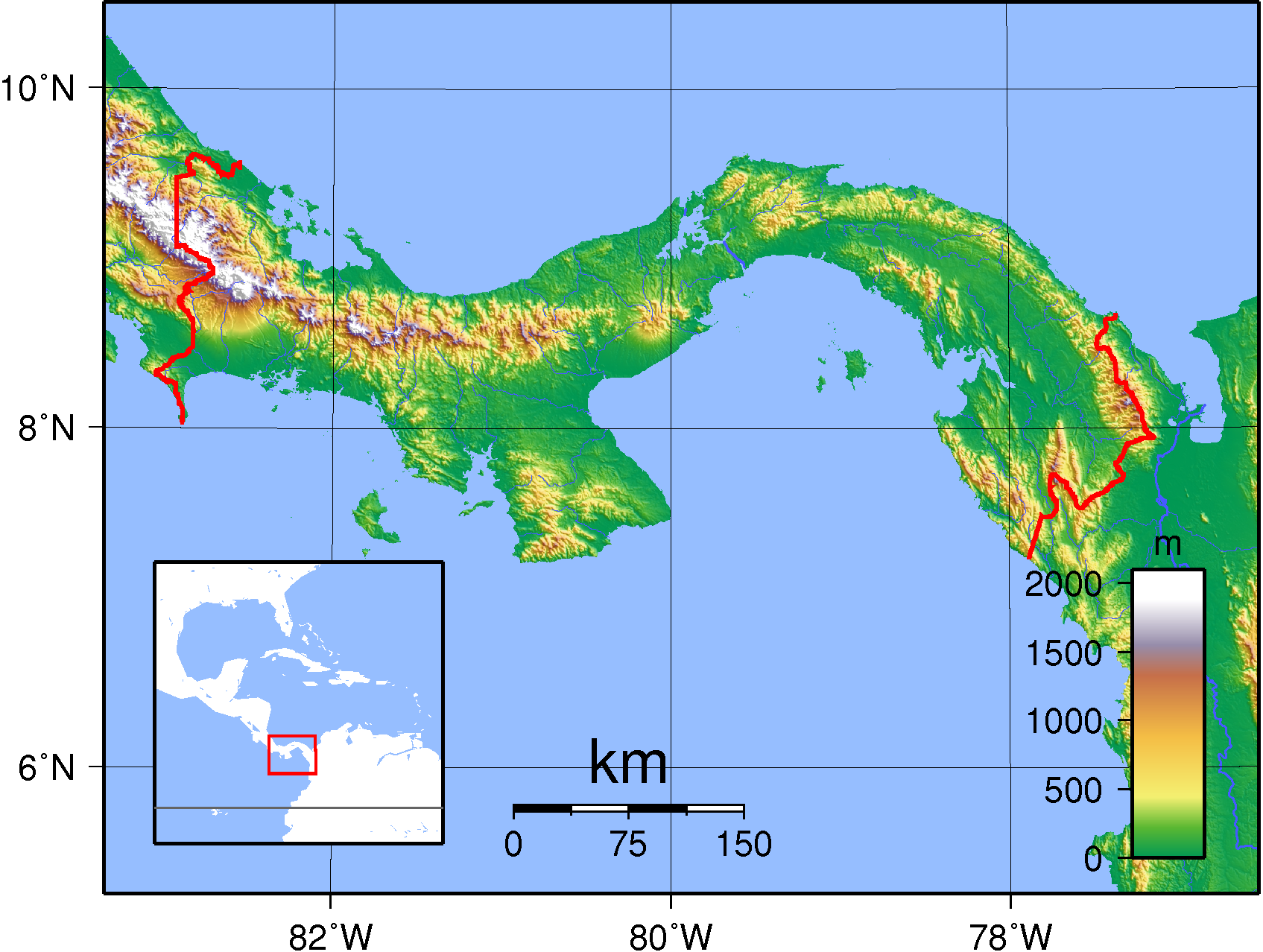 Topographic map of Panama. Created with GMT from SRTM data.